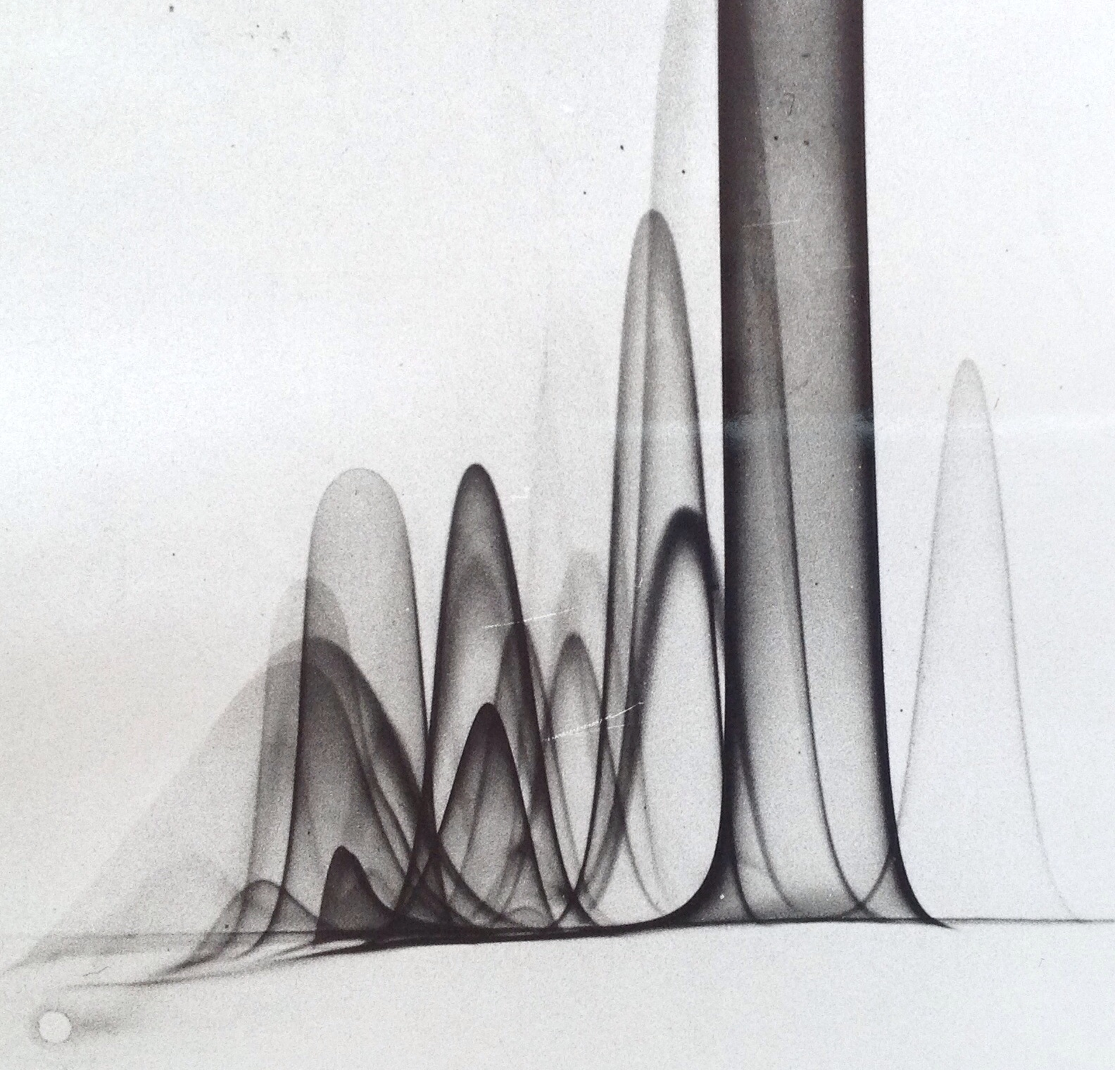 Crossed immunoelectrophoresis of two microlitre normal human serum against antibodies against human serum proteins (Dako immunoglobulins). Electrophoresis in thin layers af agarose. The stained proteins represents the major serum proteins. Analysis a. 1975 by T.C.Bøg-Hansen